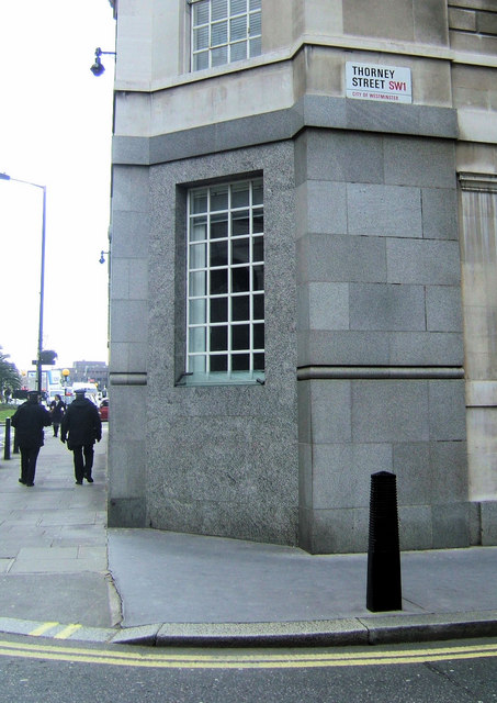 Thorney Street, Westminster, London SW1 Thorney or the Island of Thorns was an island by the River Thames formed by where the Tyburn Stream flowed into the Thames. It was on this island that King Cnut built his palace which later became the Palace of Westminster. Today this street name is the only reminder of this island.